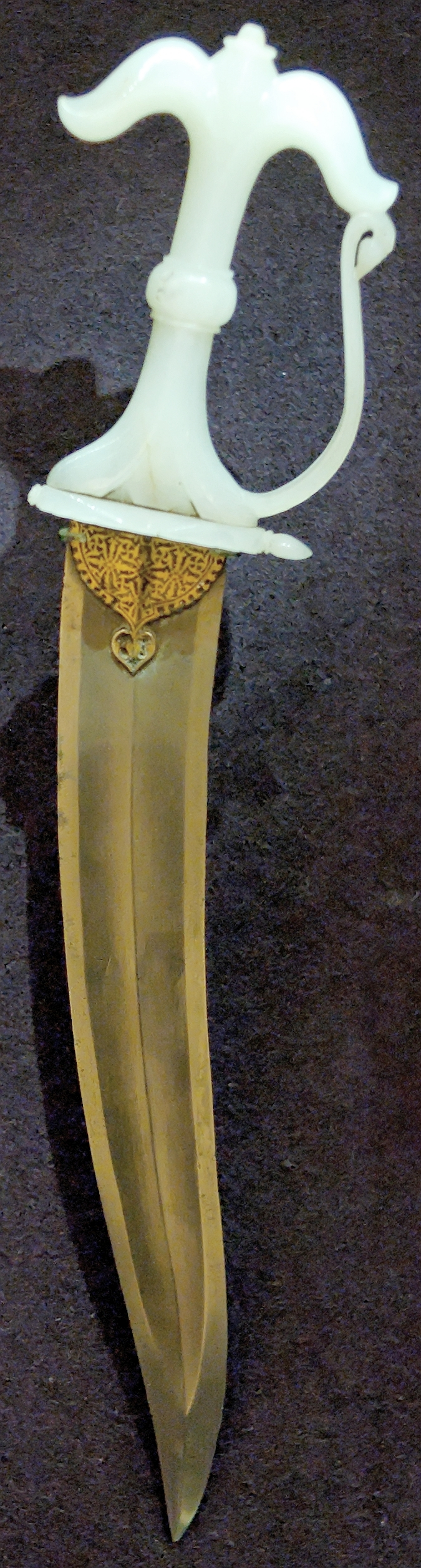 Dagger with flowered-shaped hilt, India.